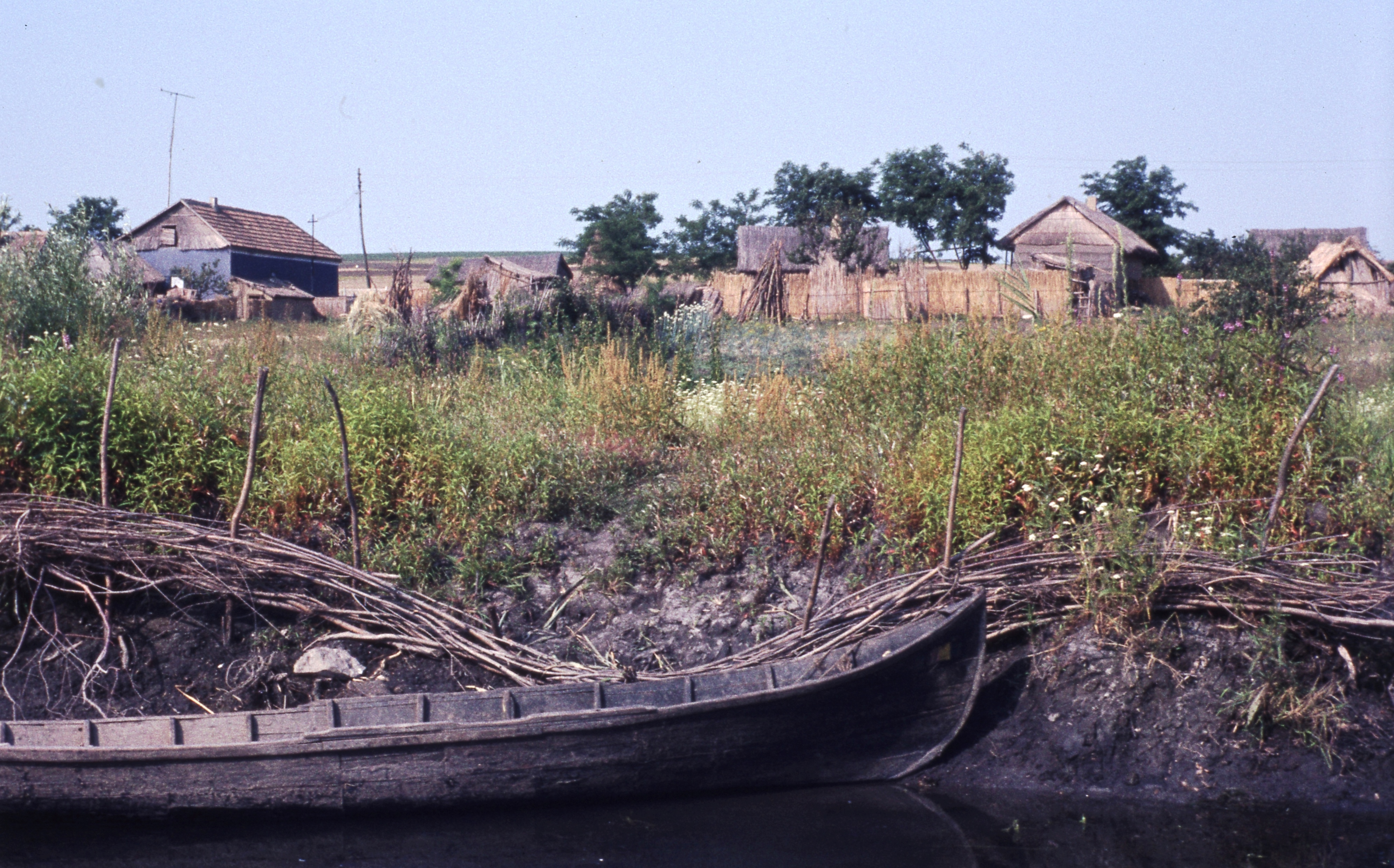 Fisher village in Danube delta